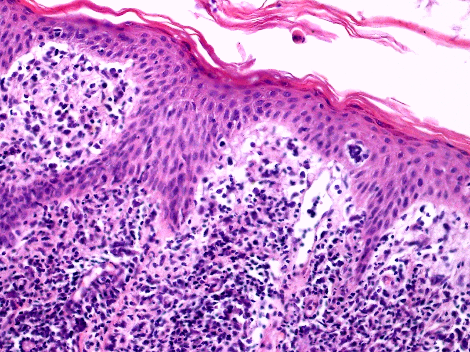 Mycosis fungoides (plaque stage)